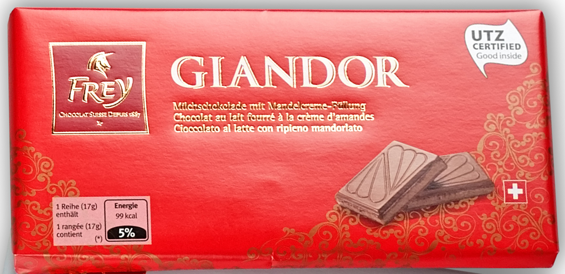 A 'Giandor' chocolate bars by Chocolat Frey